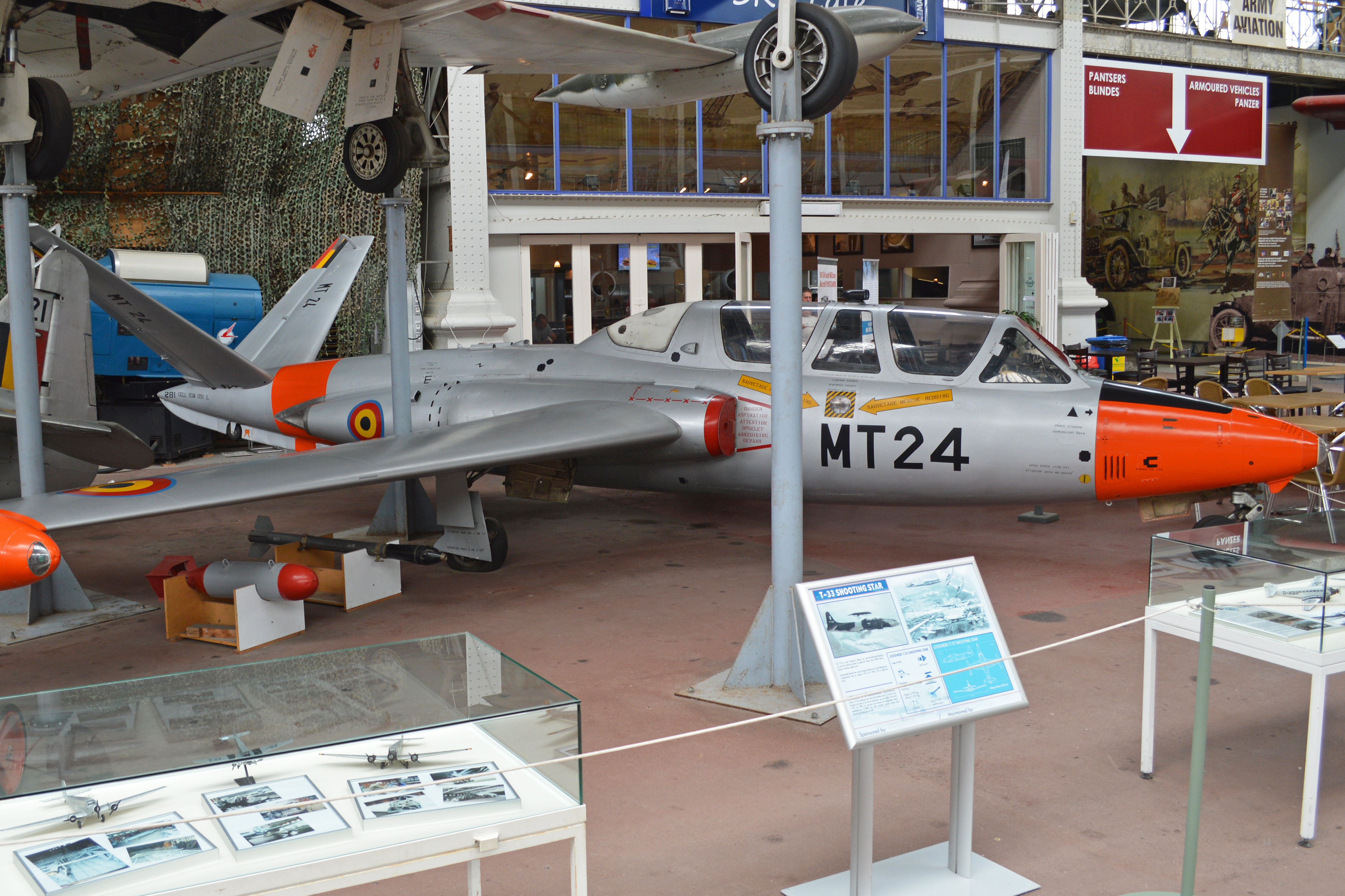 c/n 281. Belgian Air Force serial MT24. On display at what is known as the Brussels Air Museum, although it is actually the Air and Space Section of the Royal Museum of the Armed Forces and Military History. Brussels, Belgium. 26th June 2016